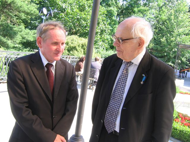 Janusz Krupski (1951-2010), Polish historian and politician and Jerzy Kłoczowski (1924-2017), Polish historian and publicist